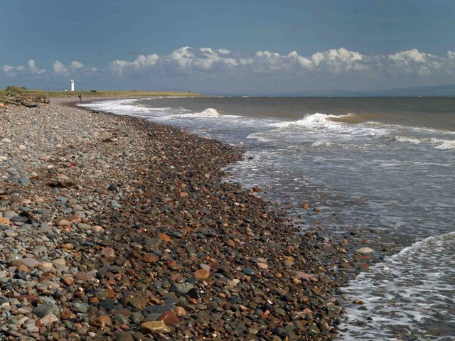 The beach at South Walney nature reserve Looking back towards the lighthouse.